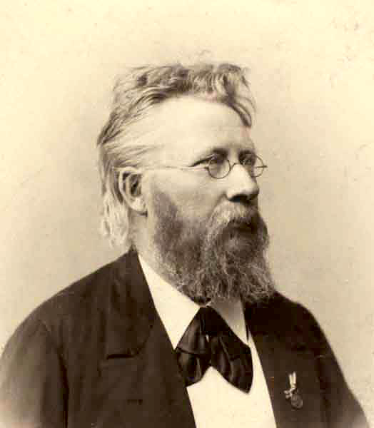 Komponisten og organisten Johan Adam Krygell 1835-1915 Danish composer and organplayer Johan Adam Krygell